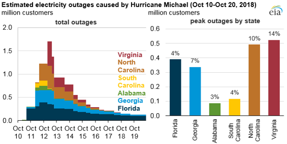 Hurricane Michael resulted in outages for up to 1.7 million electricity customers across six states, according to situation reports from the U.S. Department of Energy’s Office of Cybersecurity, Energy Security, and Emergency Response. October 22, 2018